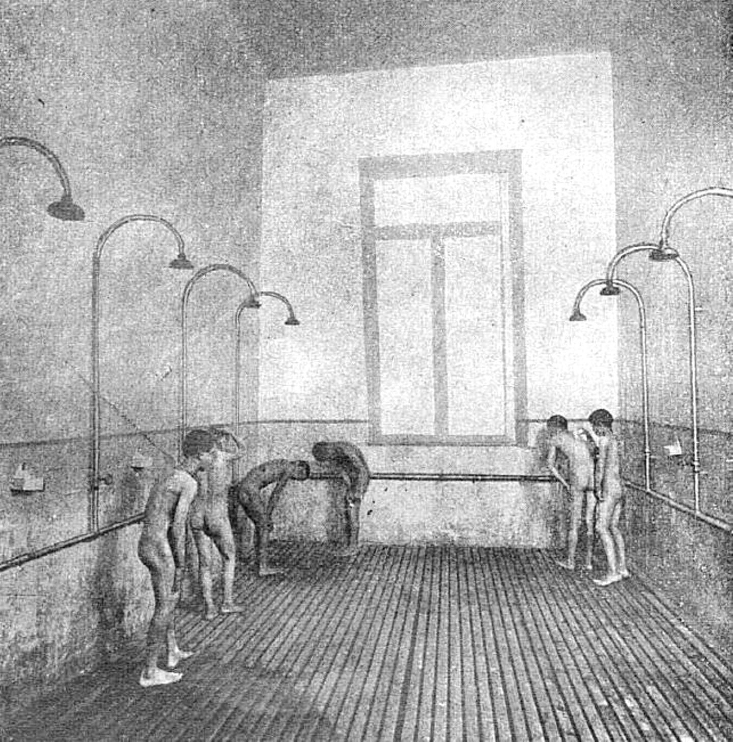 Bae şcolară din Capitală ("Municipal bathroom in the Capital"), supporting Baboeanu's defense of municipal socialism in Bucharest, and in Romania at large.